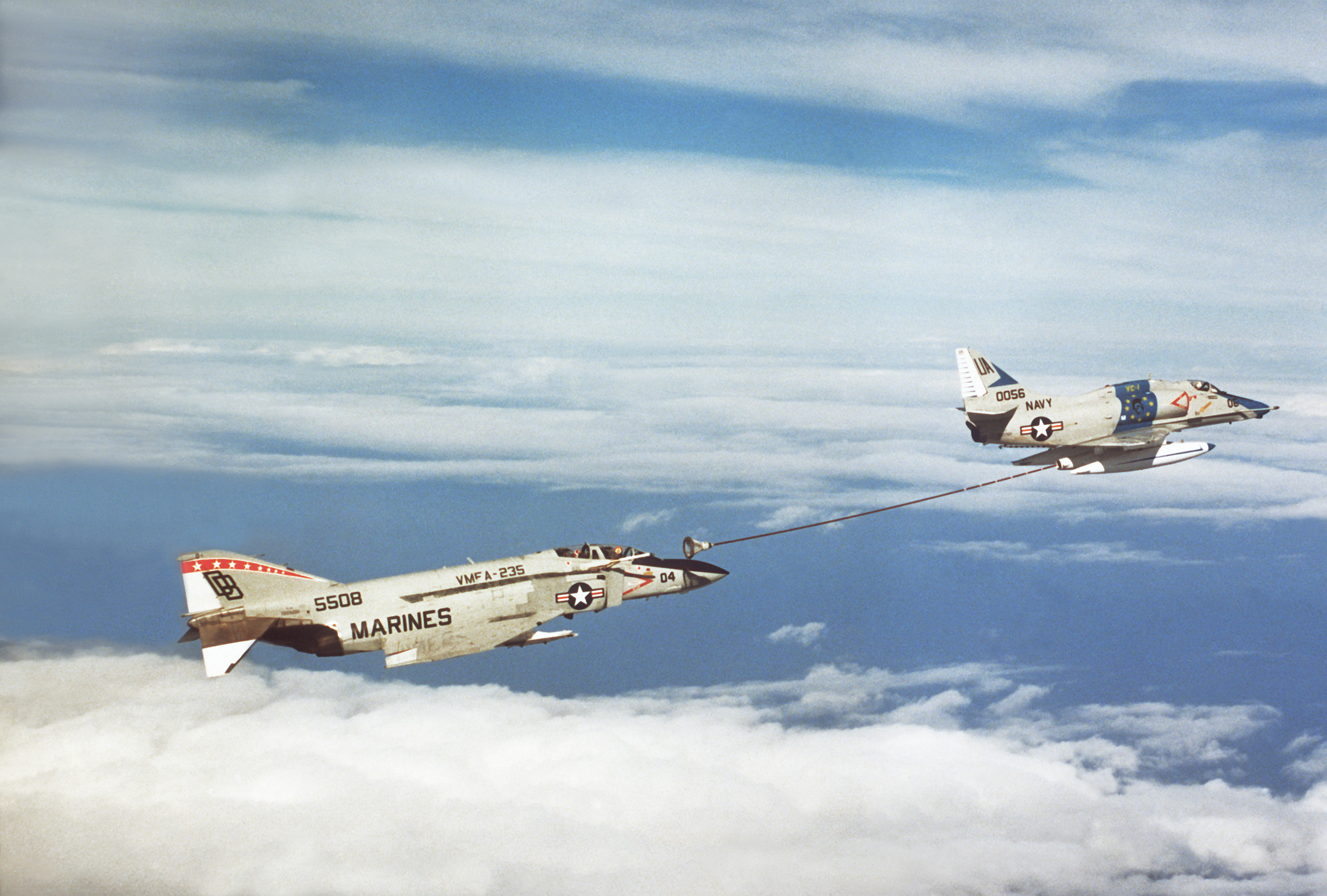 A Douglas A-4E Skyhawk (BuNo 150056) from U.S. Navy composite squadron VC-1 refuels a McDonnell F-4J Phantom II aircraft (BuNo 155508) from U.S. Marine Corps fighter-bomber squadron VMFA-235 on 1 March 1977.